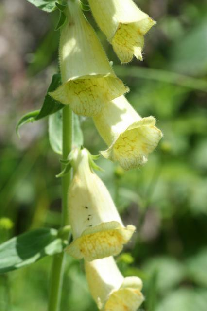 (en)Big-flowered Foxglove Digitalis grandiflora, a photography originating of the internet site The accord of the autor, H. Brisse, is here. (fr) Digitale à grande fleur (Digitalis grandiflora), une photographie issue du site internet L'accord de l'auteur, H. Brisse, se situe ici. (de)Blaßgelber Fingerhut, (it)Digitale gialla grande